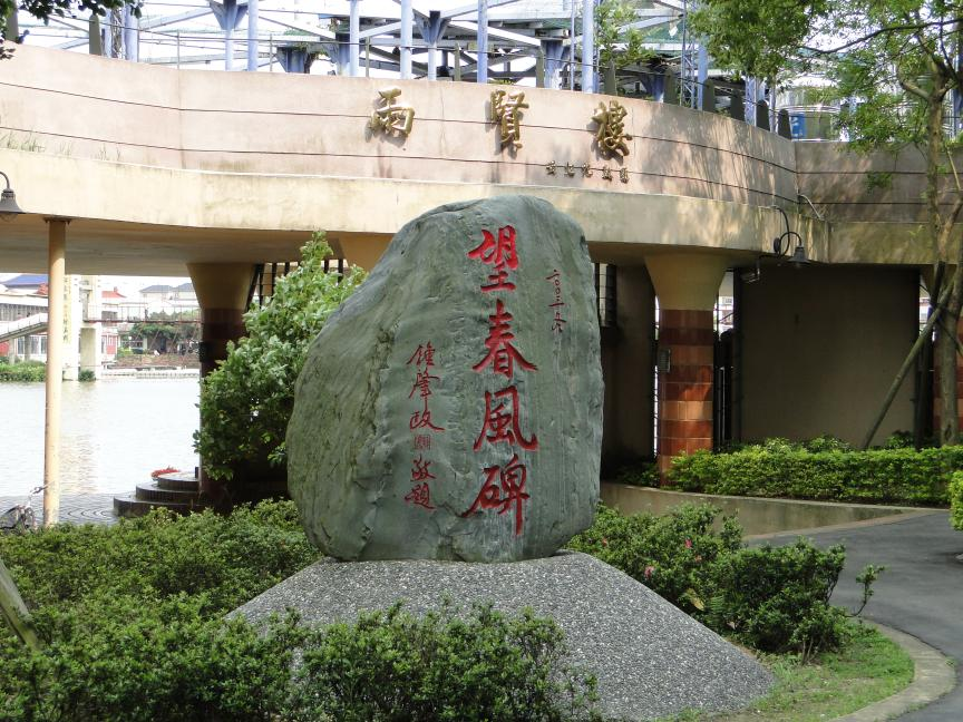 Yu-hsien Hall and Bāng Chhun-hong Stele at Longtan Lake.